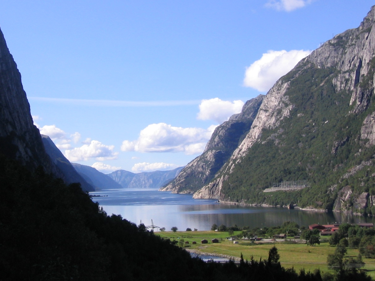 Lysebotn at Lysefjord